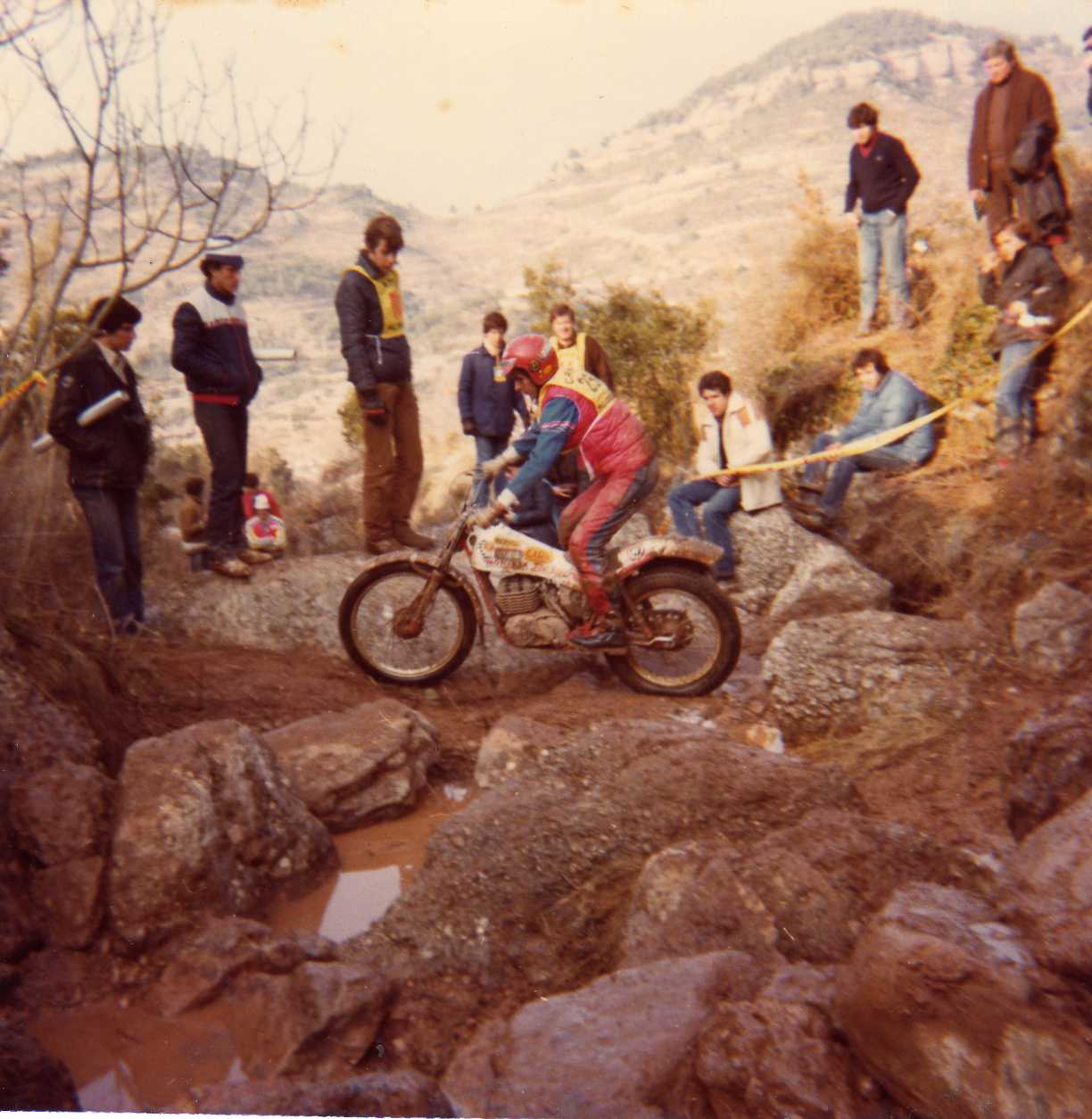 Pere Ollé riding his Montesa Cota at XV "Trial de Sant Llorenç" in Mura (Catalonia) on February 22, 1981. It was the first race of the Trial World Championship. He finished 13th.